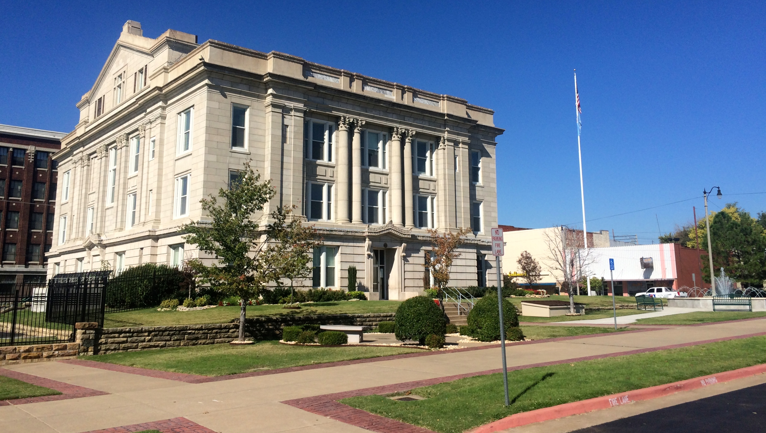 Creek County Courthouse, 222 E. Dewey Ave. Sapulpa